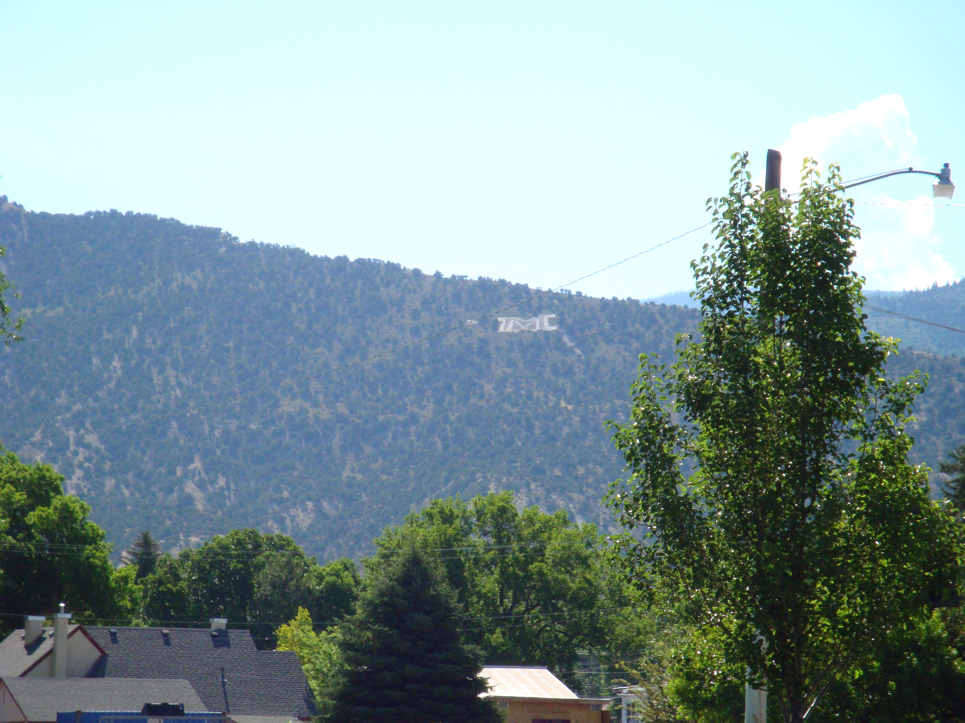 View of Manti High School block M as seen from the Manti High School main entrance, in Manti Utah. The block M in its current location was made in 1929 (the tradition started in 1919 though). The class year number was started in 1978.